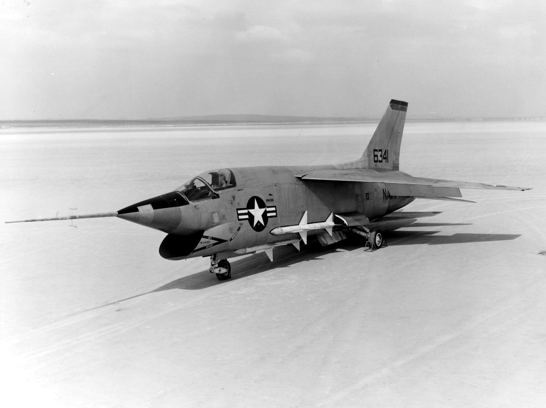 A U.S. Navy Vought XF8U-3 Crusader III (BuNo 146341) at Edwards Air Force Base, California (USA).